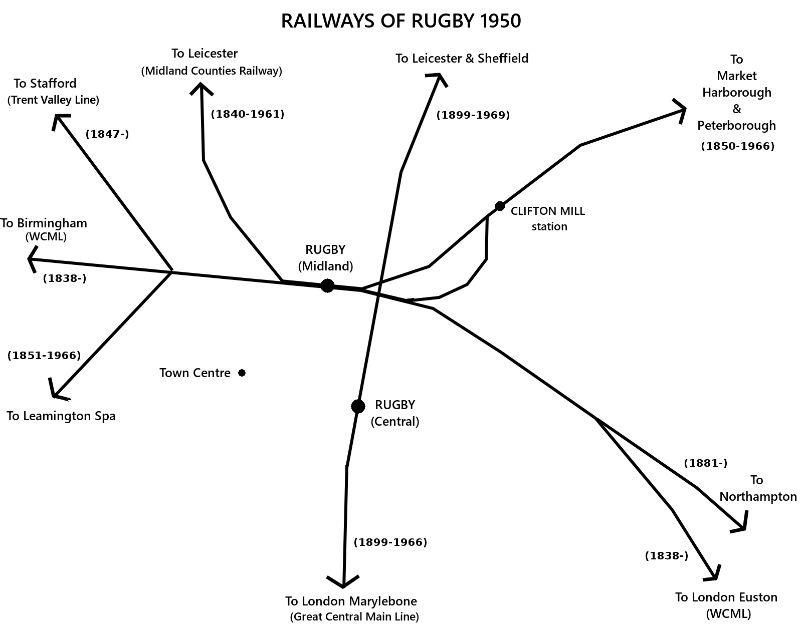 Diagram of the railways around Rugby, Warwickshire in 1950. The 2012 book 'Railway Atlas Then and Now' by Paul Smith and Keith Turner was used as a reference.